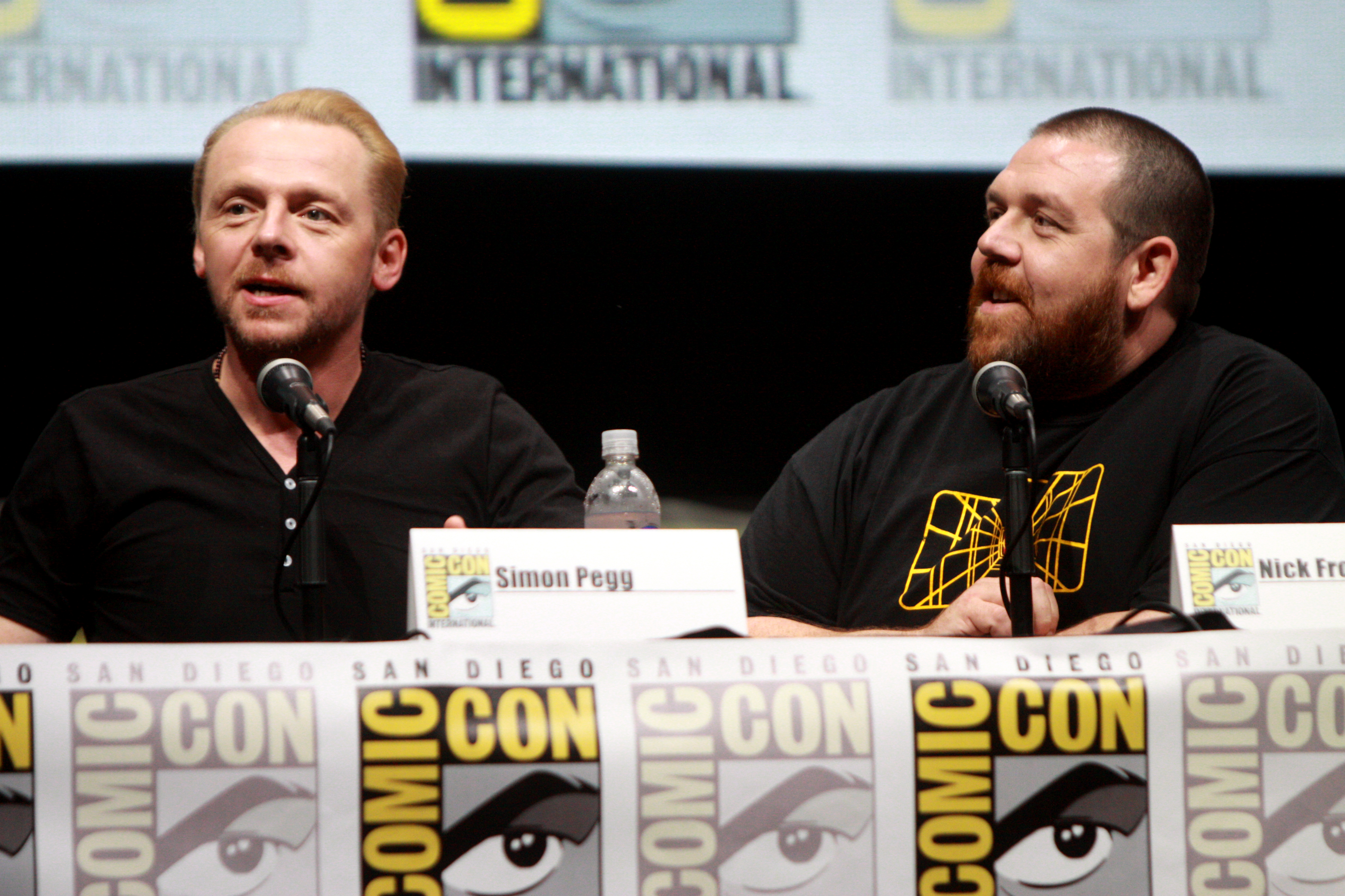 Simon Pegg and Nick Frost speaking at the 2013 San Diego Comic Con International, for "The World's End", at the San Diego Convention Center in San Diego, California.